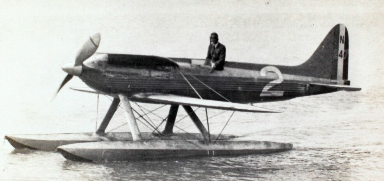 Image from the Charles Daniels Photo Collection album "British Aircraft." SOURCE INSTITUTION: San Diego Air and Space Museum Archive